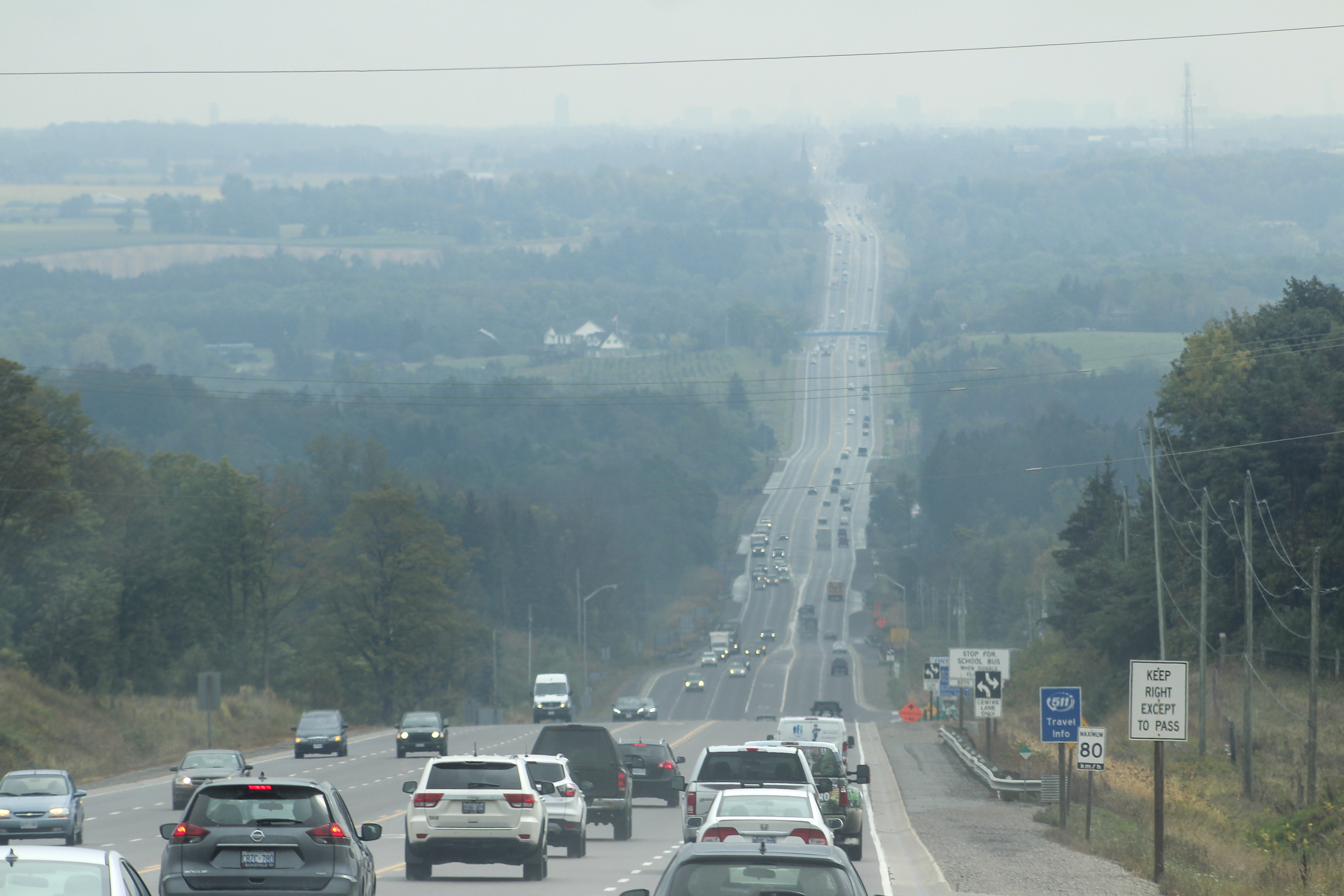 One of the highways that run through Caledon, Ontario. This was taken at around 13:00 EST, on the eastbound/southbound route.